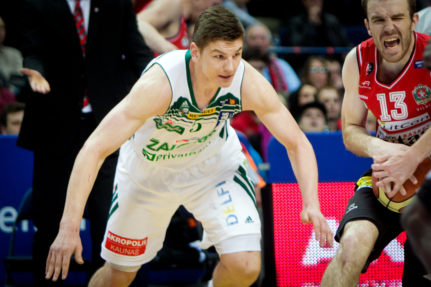 Lithuanian basketball player Arturas Gudaitis